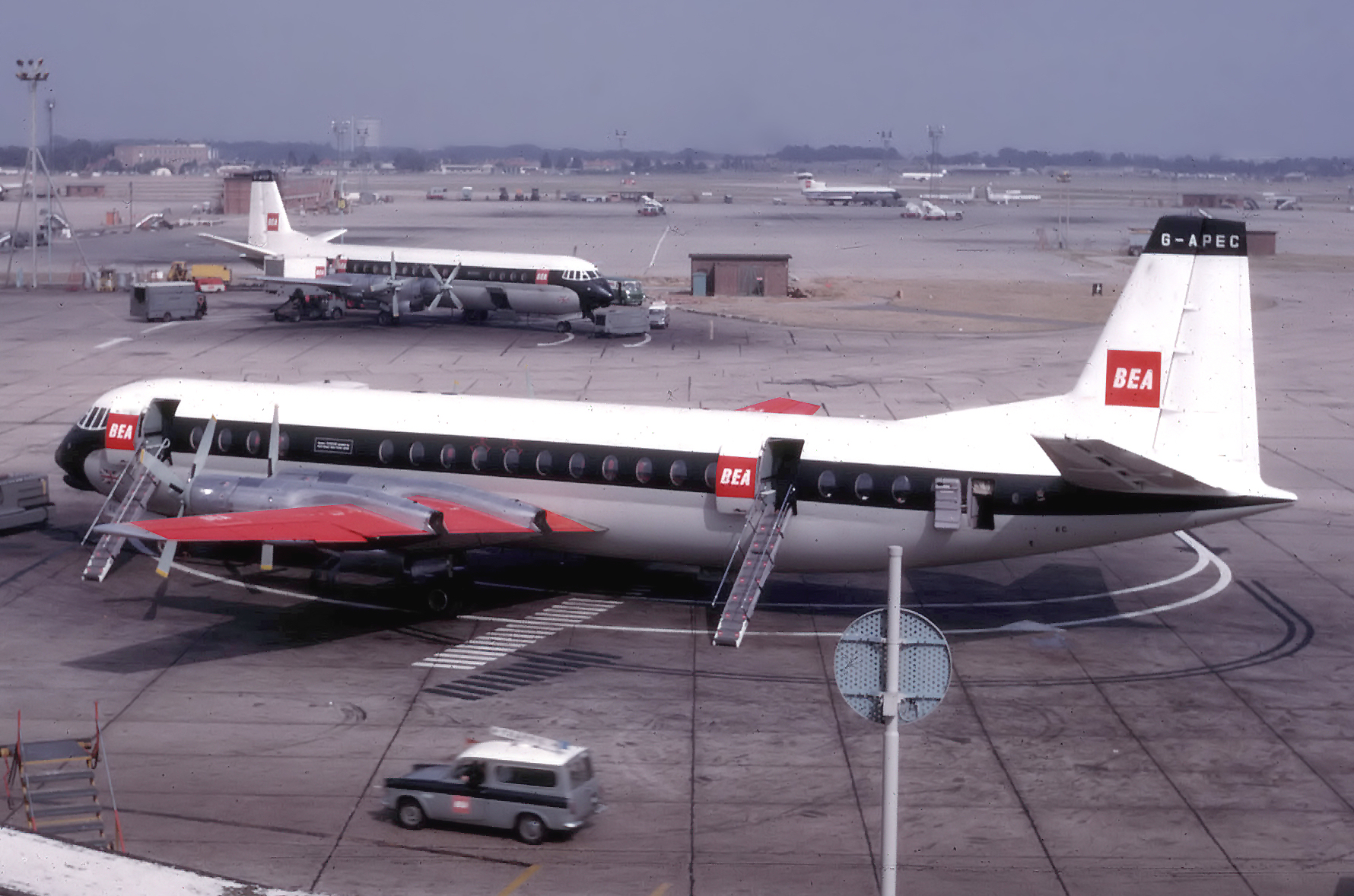 BEA Vickers Vanguard (G-APEC) at London Heathrow Airport, England. Photographed by Adrian Pingstone in 1965 and released to the public domain. On 2 October 1971, this plane crashed in Belgium.